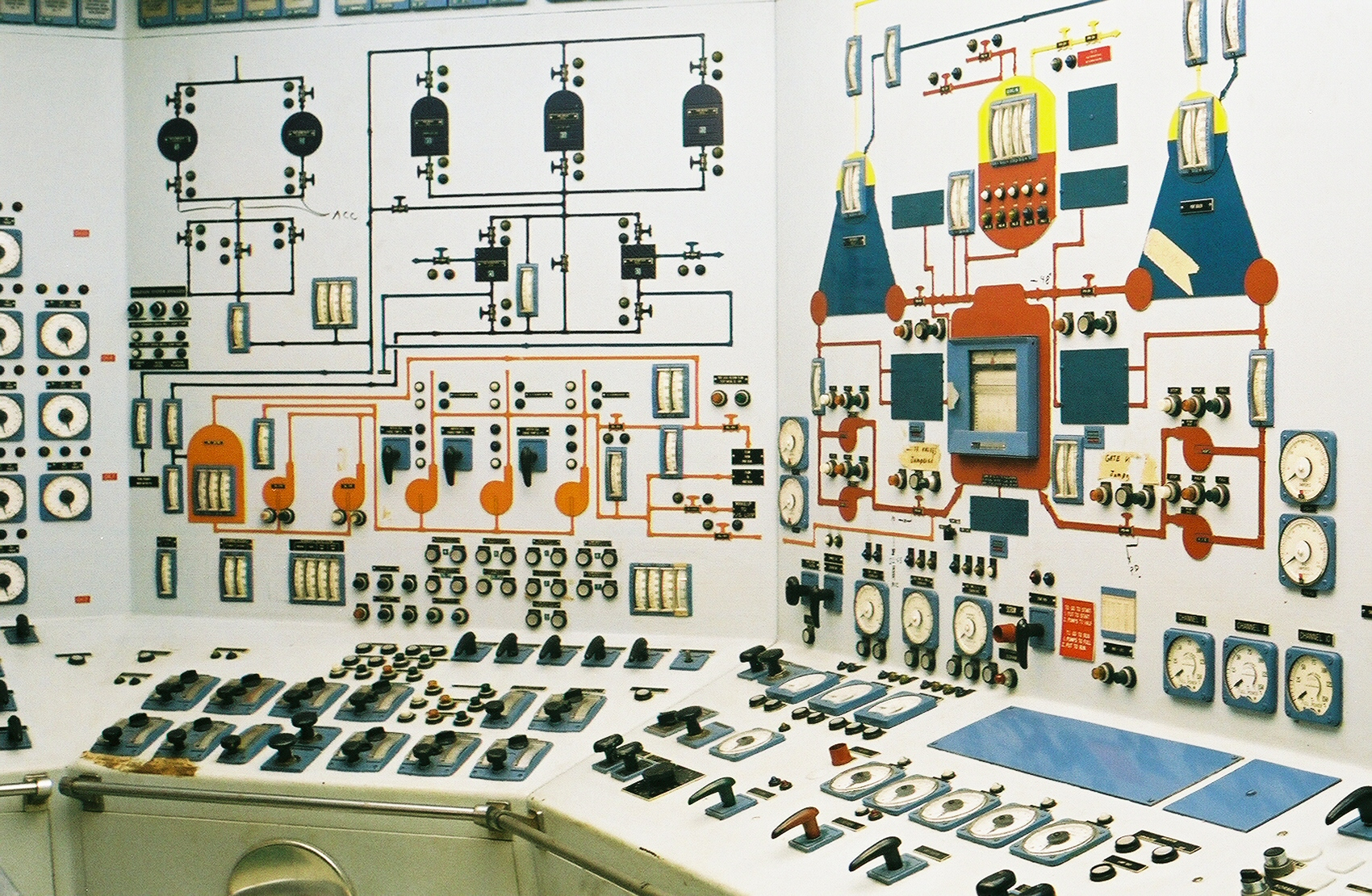 Nuclear Ship Savannah Nuclear Reactor Control Room Center and Left Panels